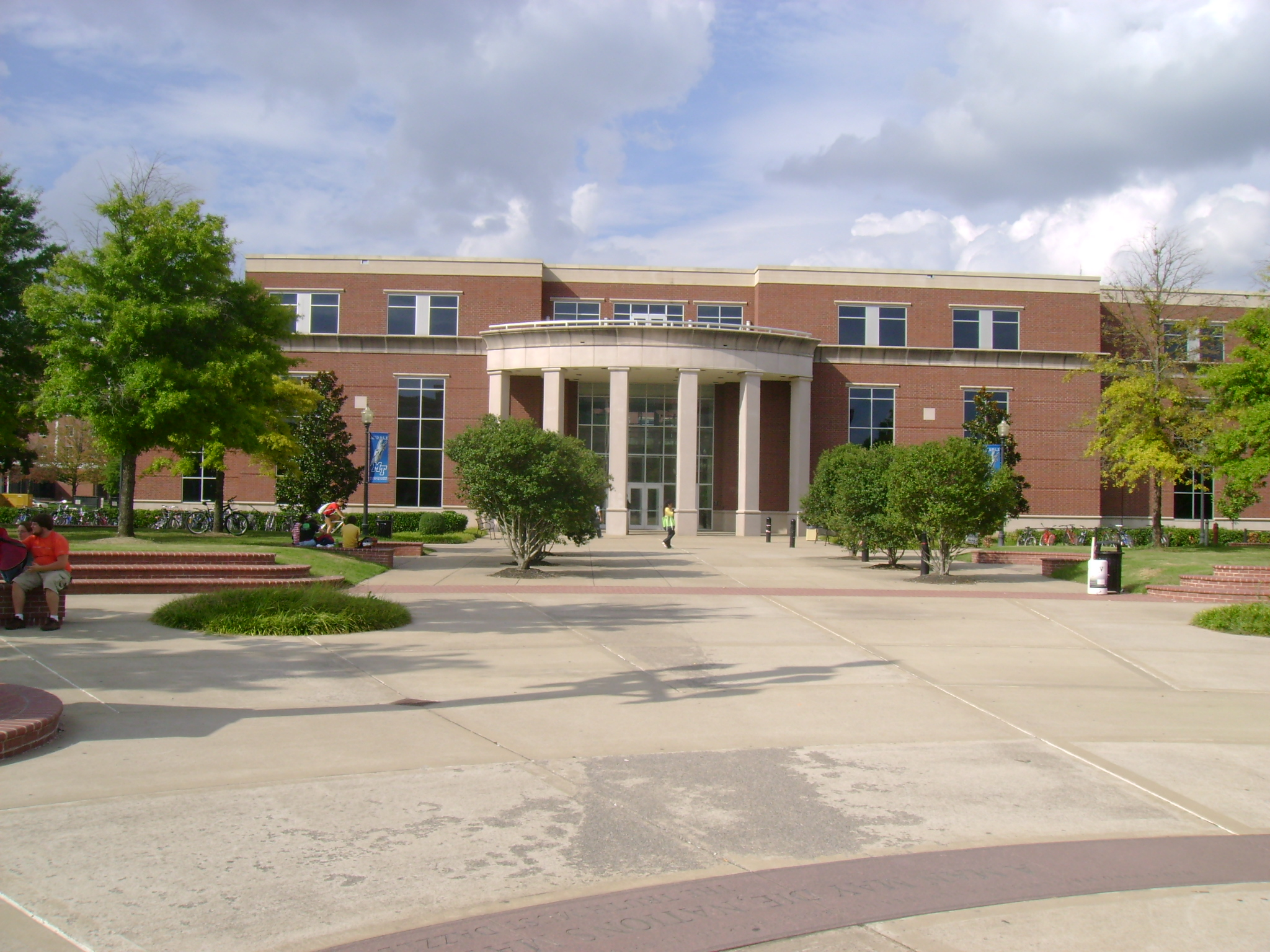 Business and Aerospace Building from the view of the quadrangle